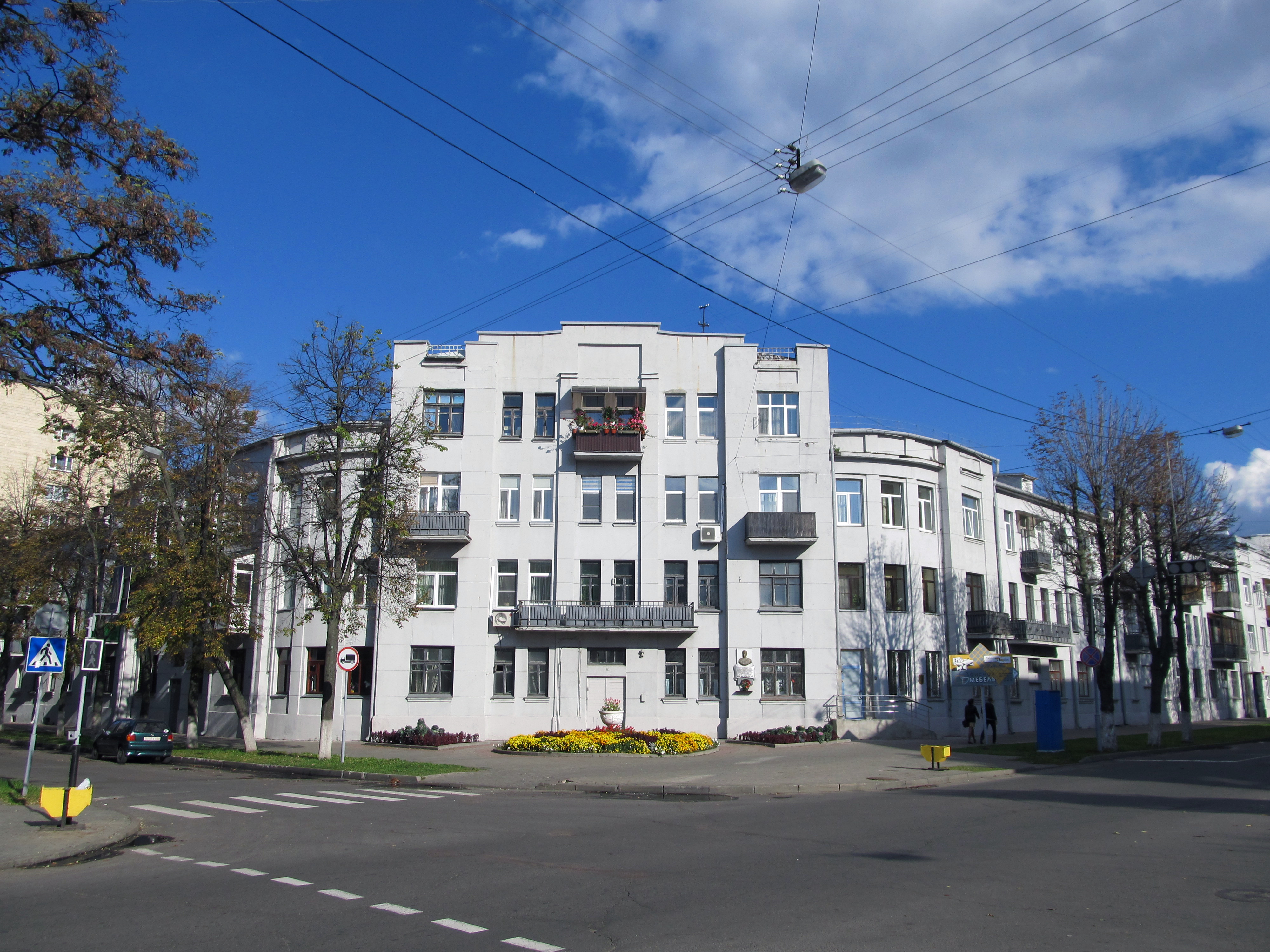 Беларуская (тарашкевіца): Будынак. г. Гомель This is a photo of Belarusian heritage monument. Reference number: 313Г000068 ( WLM)